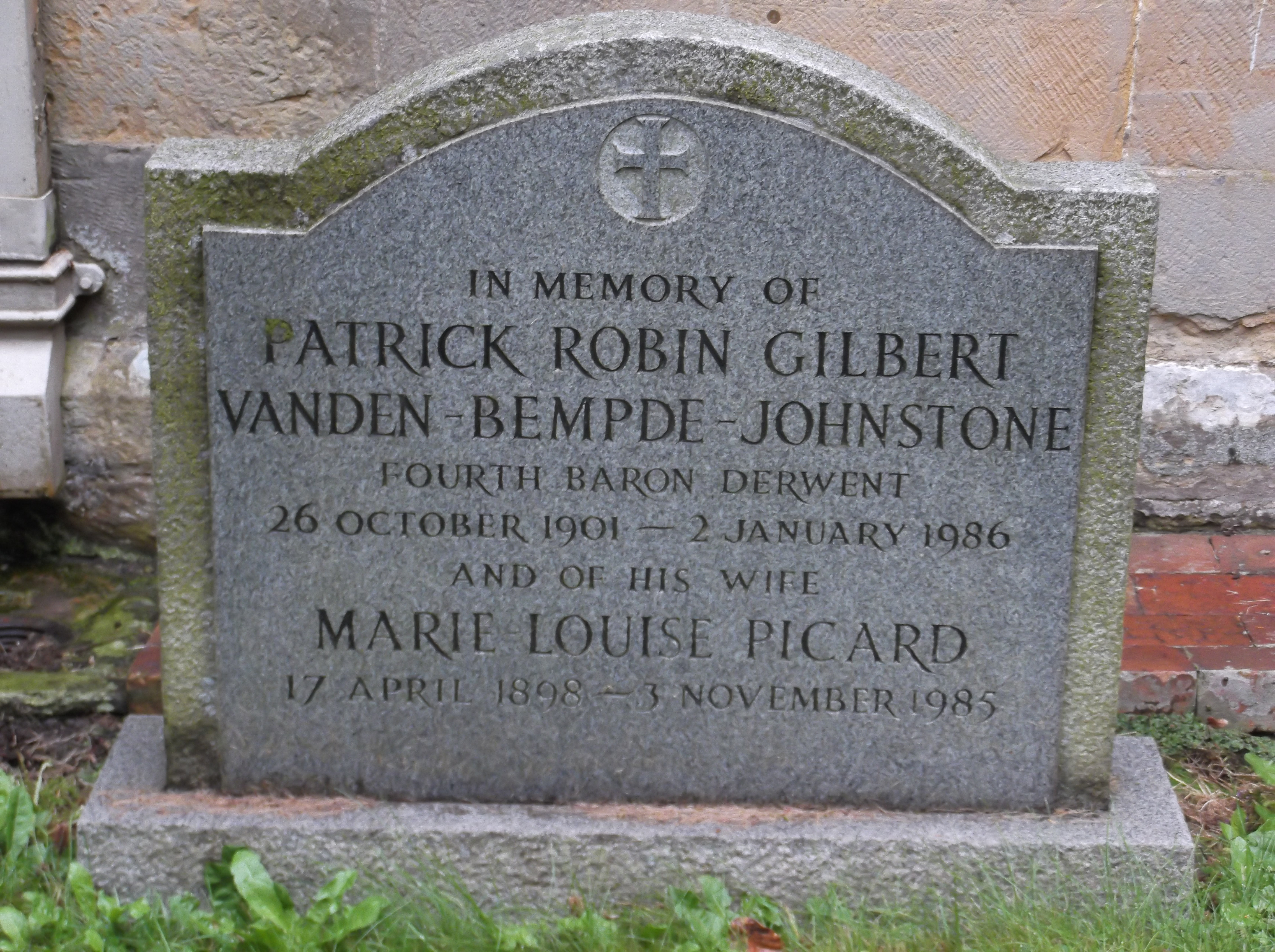 Photograph of the headstone of the grave of the fourth Baron Derwent and his wife at the porch of St Peter's church, Hackness, North Yorkshire, England